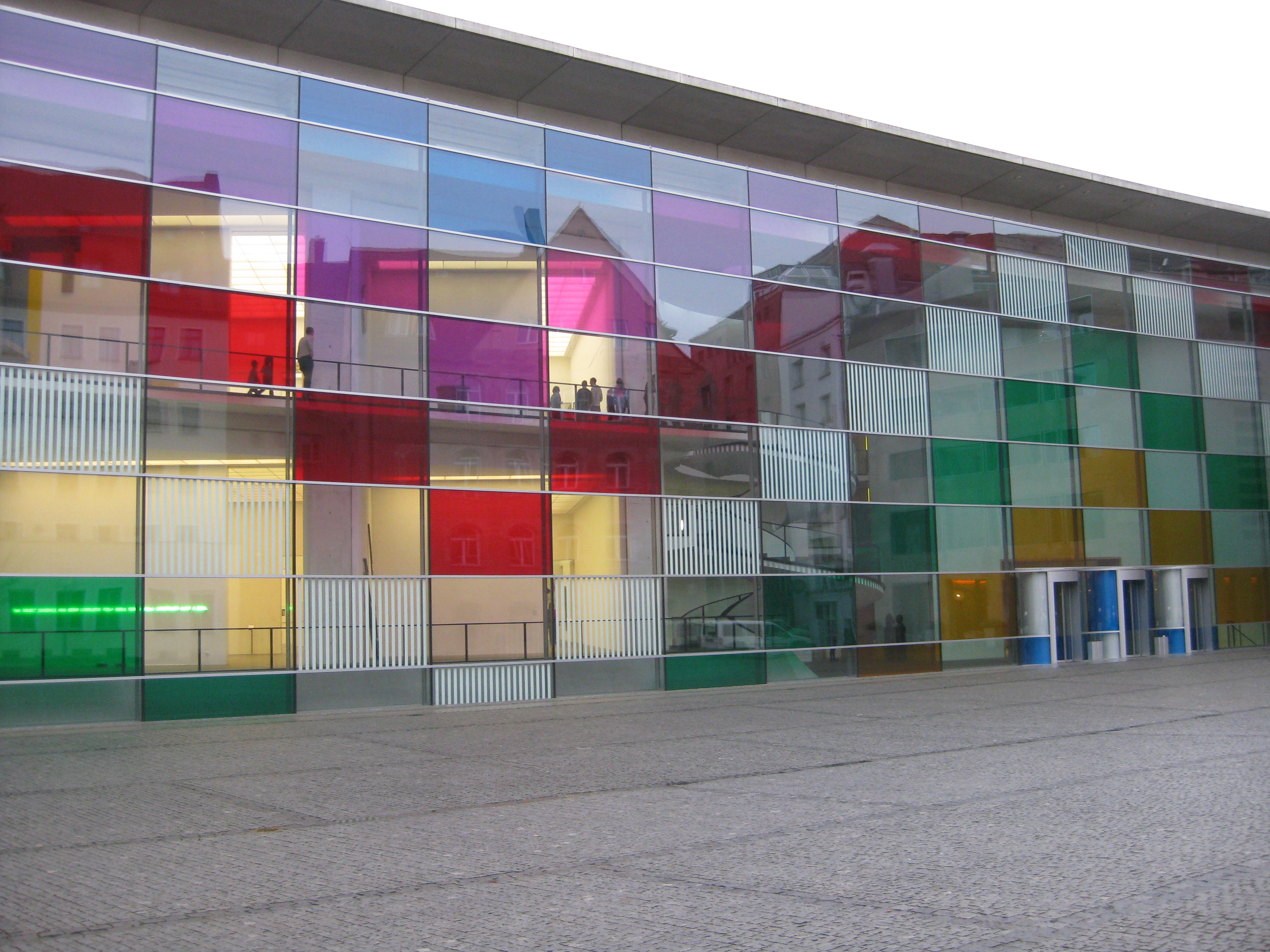 Facade of Neues Museum in Nuremberg colored by Daniel Buren Fassade des Neues Museum in Nürnberg farblich gestaltet von Daniel Buren